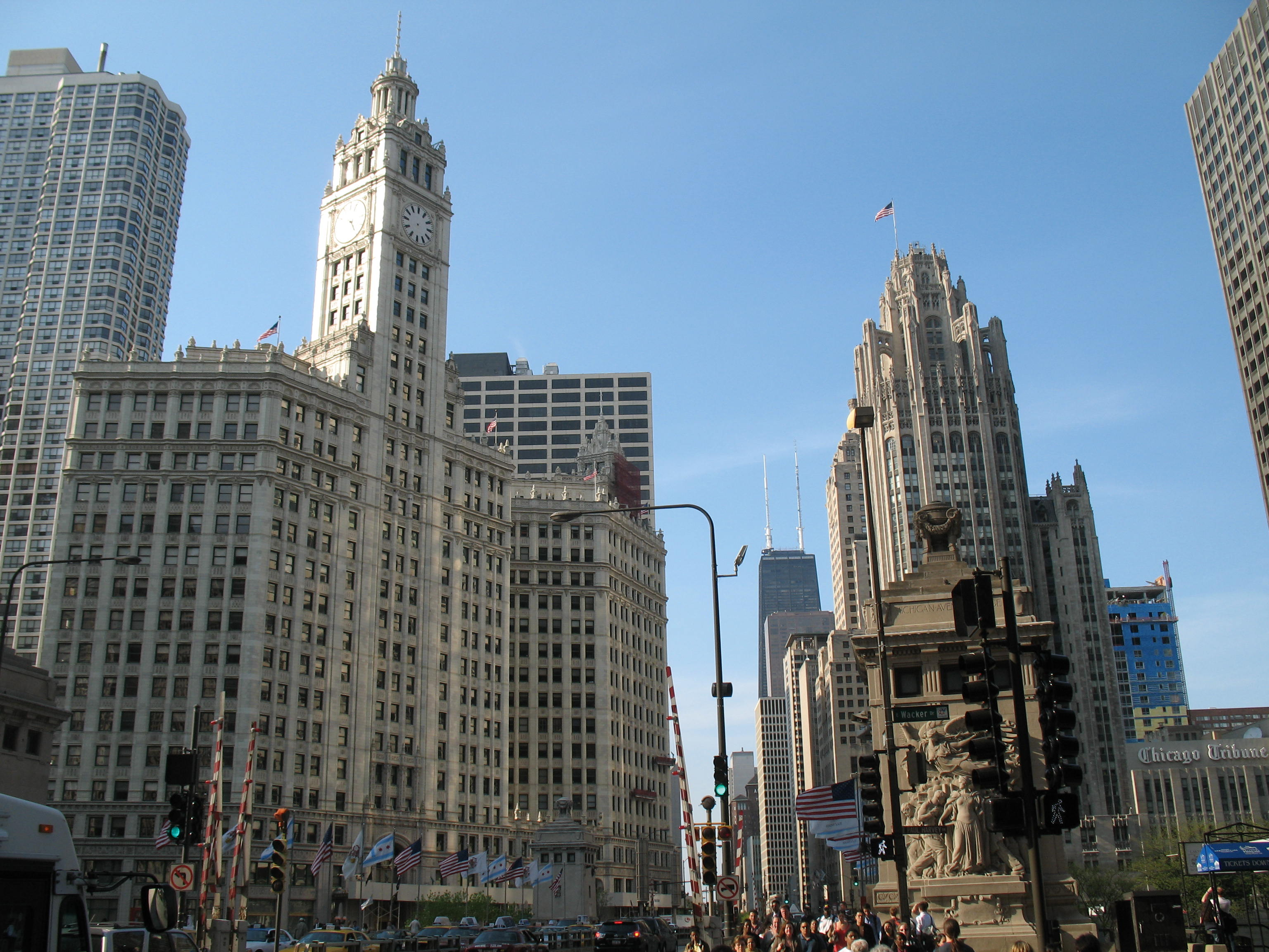 View north from the foot of the Magnificent Mile in the Michigan–Wacker Historic District: the Art Deco Wrigley Building (left) and neo-Gothic Tribune Tower. The foot of the Magnificent Mile shows Streeterville neighborhood landmarks Tribune Tower, Michigan Avenue Bridge, and Wrigley Building in the foreground as well as the John Hancock Center in the backtground. The foot of the Magnificent Mile shows Streeterville neighborhood landmarks Tribune Tower, Michigan Avenue Bridge, and Wrigley Building in the foreground as well as the John Hancock Center in the backtground.